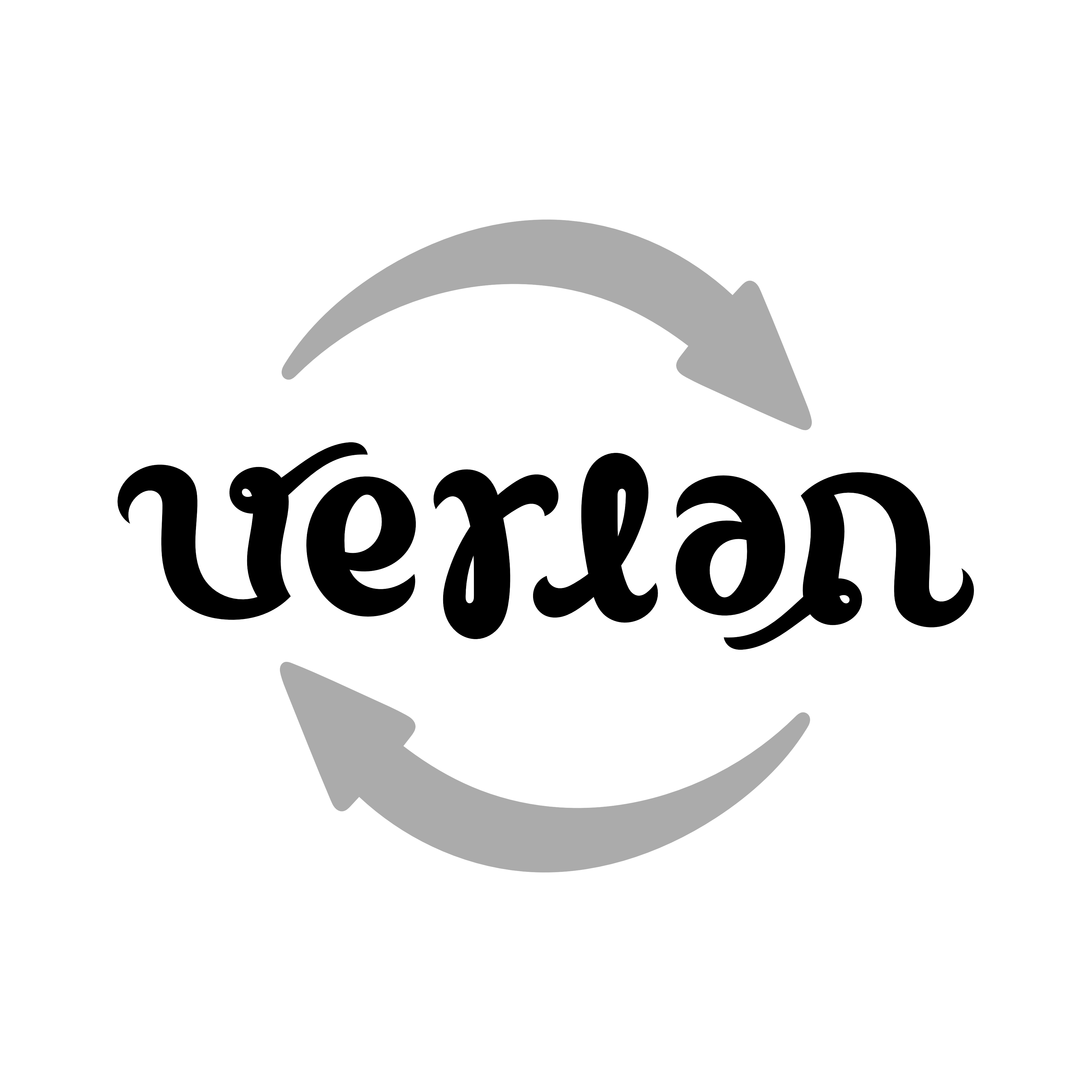 Ambigram verlan. 180° rotational symmetry. Recursive sentence, talking about itself.